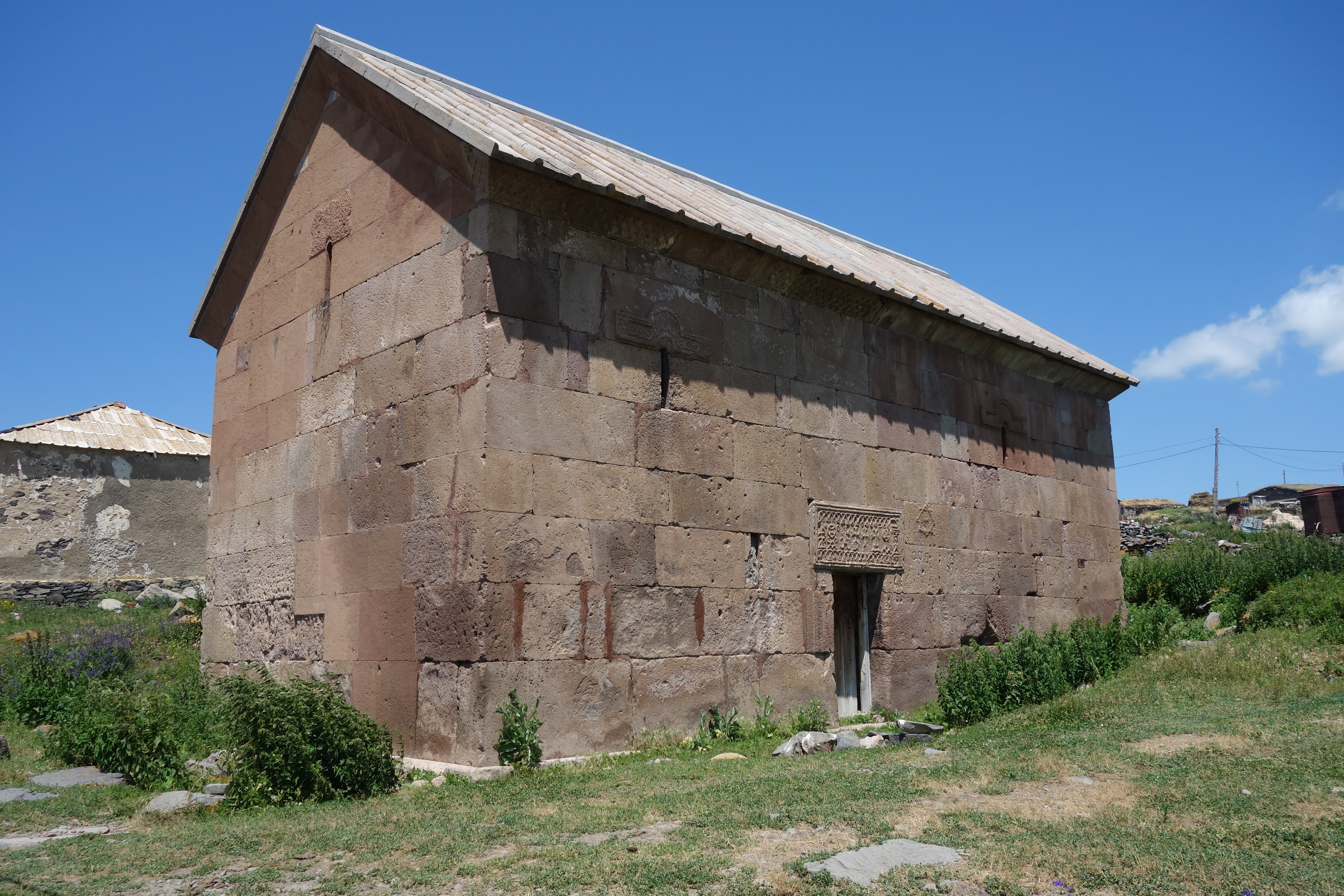 A 10th century church in Rodionovka (Paravani), Samtskhe-Javakheti, Georgia